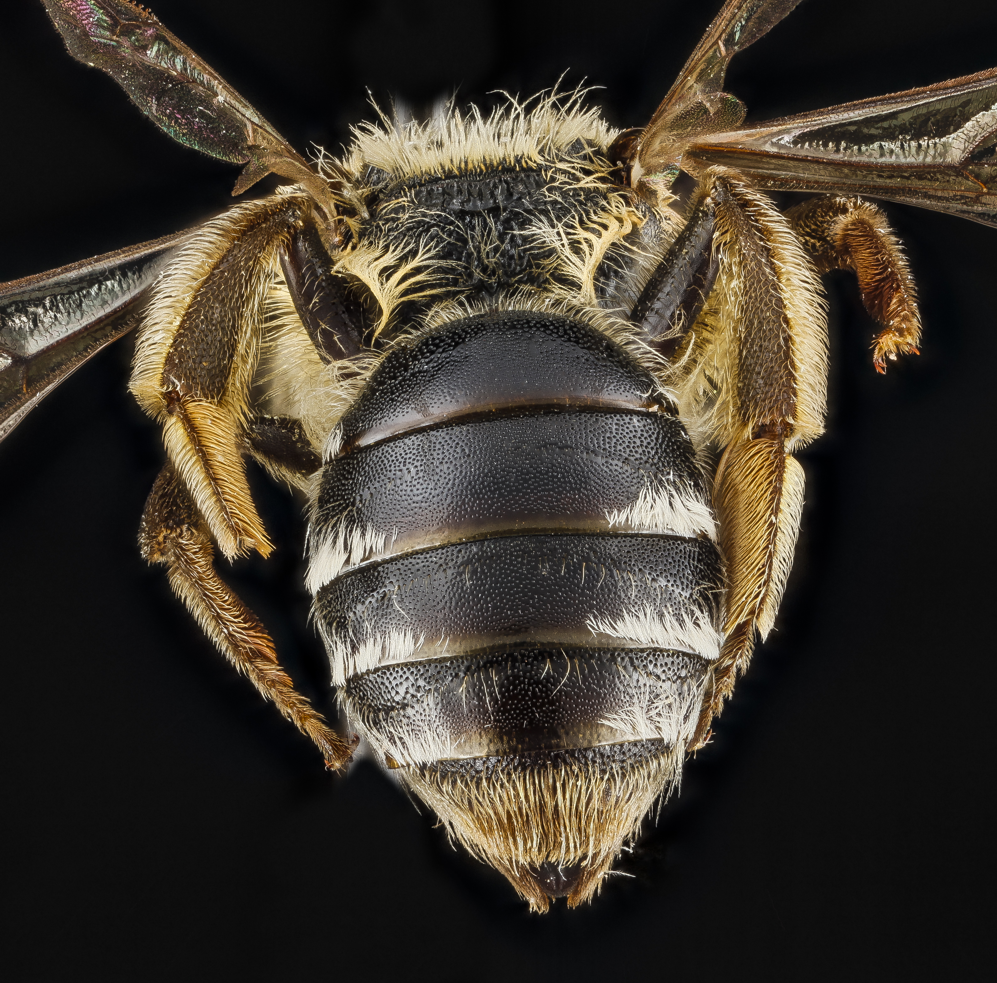 Andrena ceanothi, Hancock County, Maine Acadia National Park